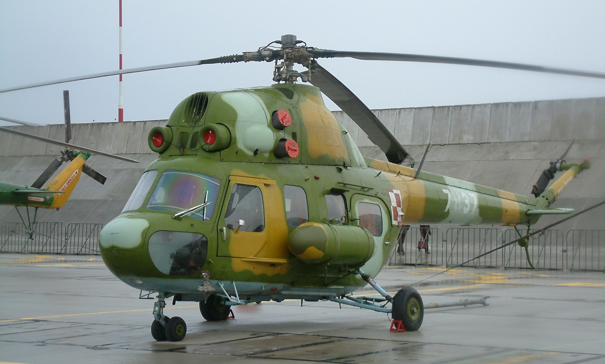 Mi-2 #7837 of Polish Air Forces, 31st. Air Base Poznań-Krzesiny